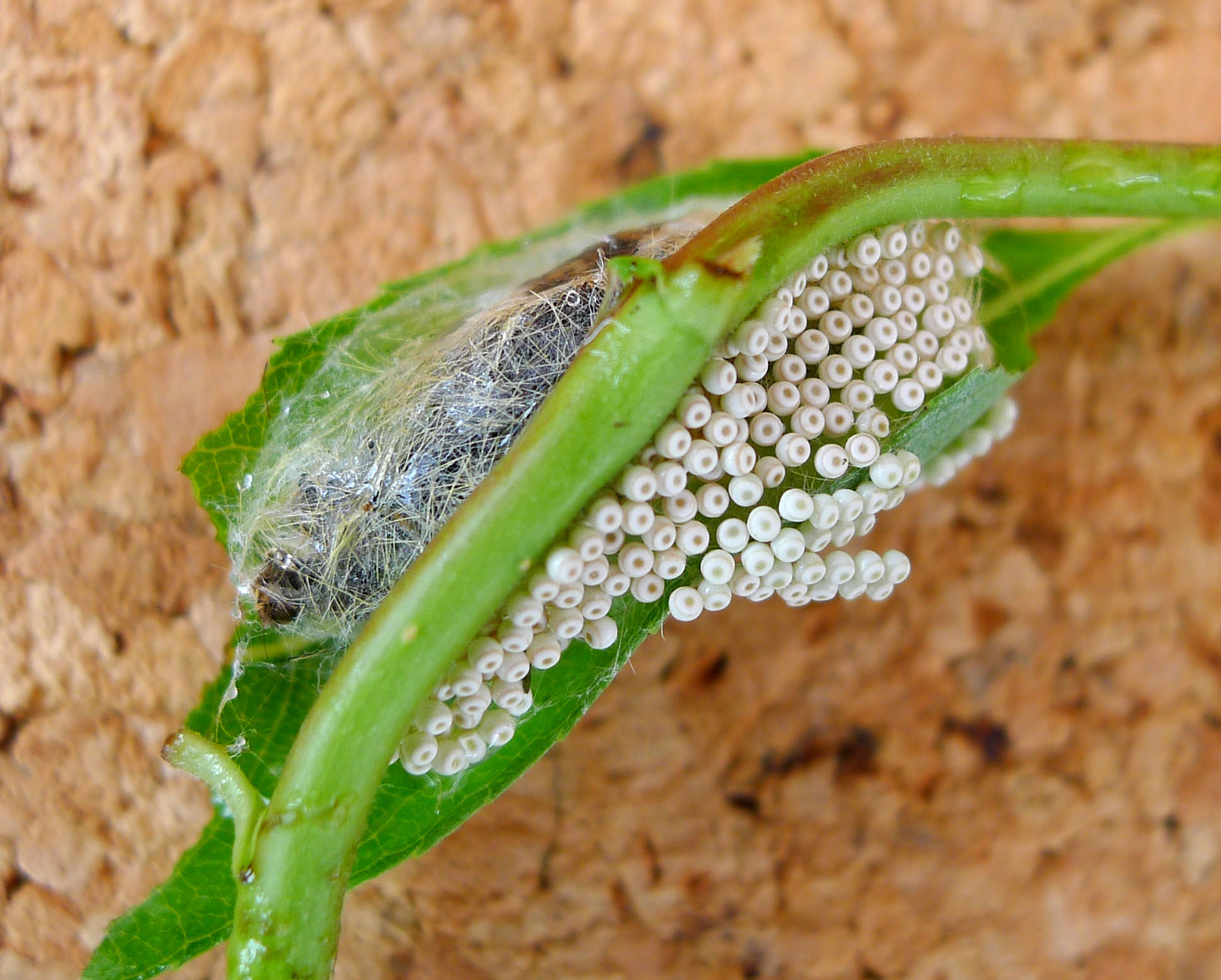 Bosbury, Herefordshire. SO69494337